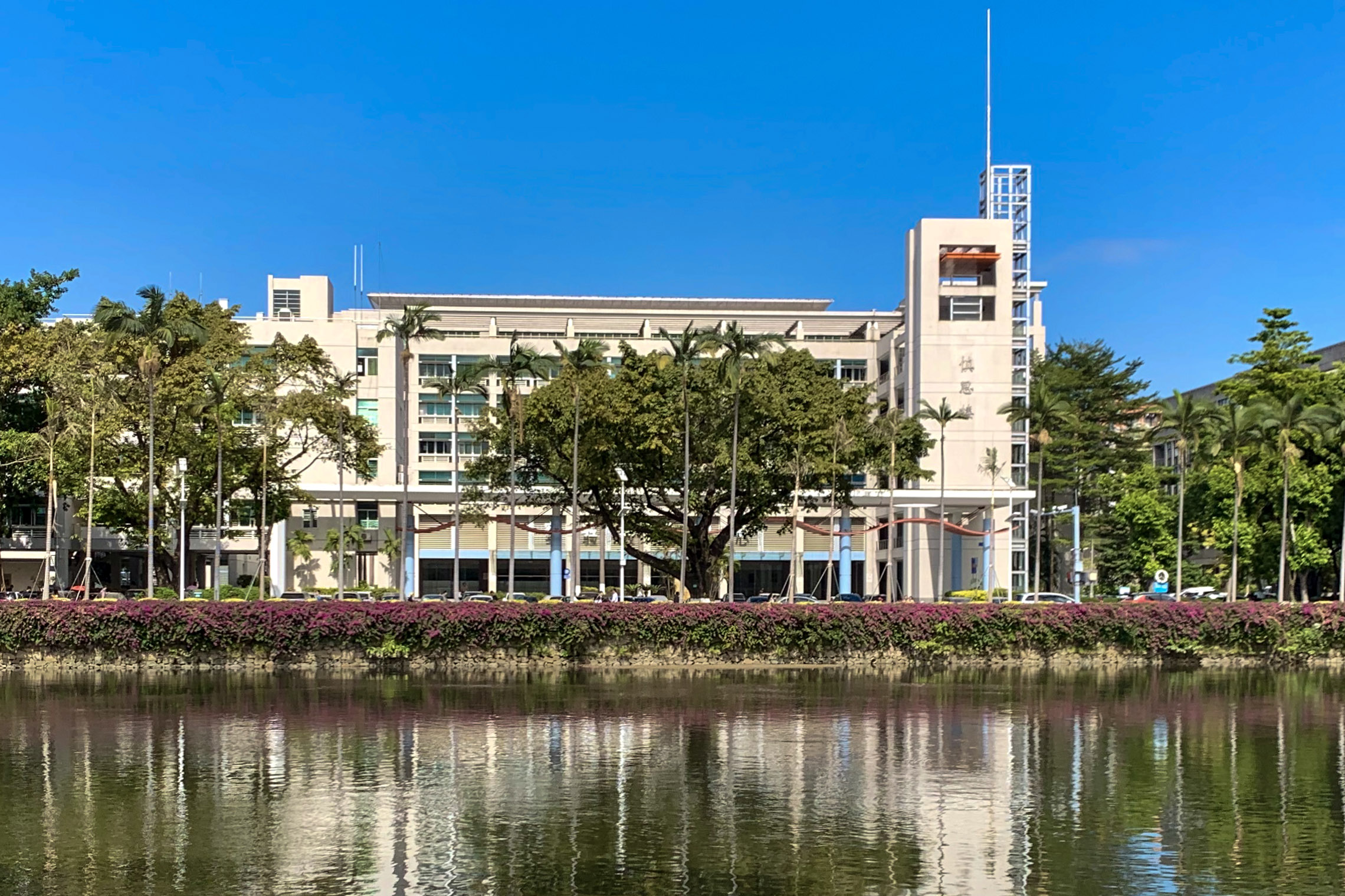 Building No. 31 of South China University of Technology (SCUT) Wushan Campus.